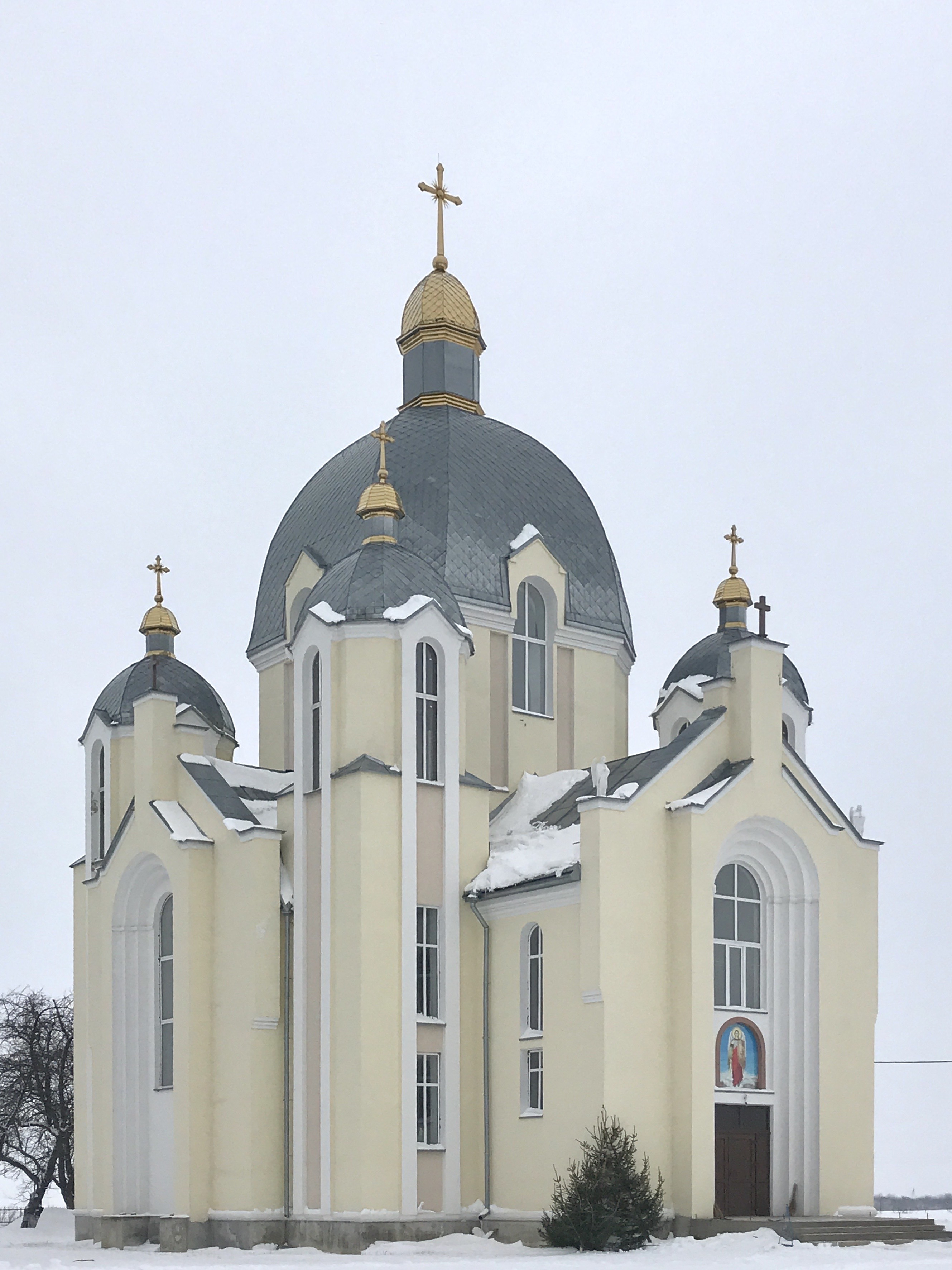 Church of St. Archangel Michael in village Vivsia, Kozova Raion, Ternopil oblast. Construction and consecration were completed in November 2017. The act of consecration was performed by the Archbishop and Metropolitan Vasyl Ternopil-Zborivsky (Semeniuk).